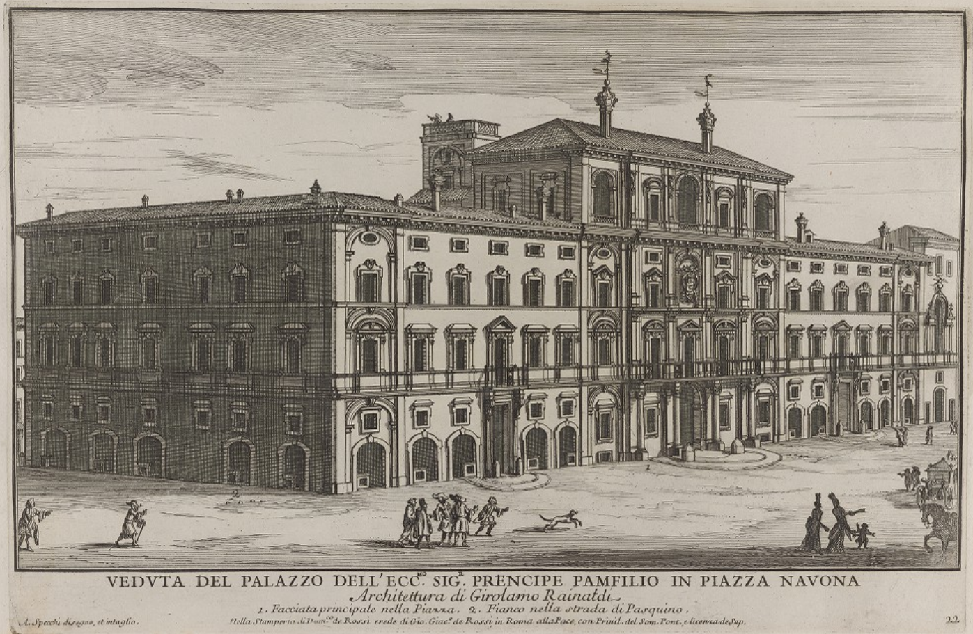 View of the Palazzo Pamphili as seen from the Piazza Navona (1 in image; see also image 119), as well as the facade facing the Strada di Pasquino (2 in image).